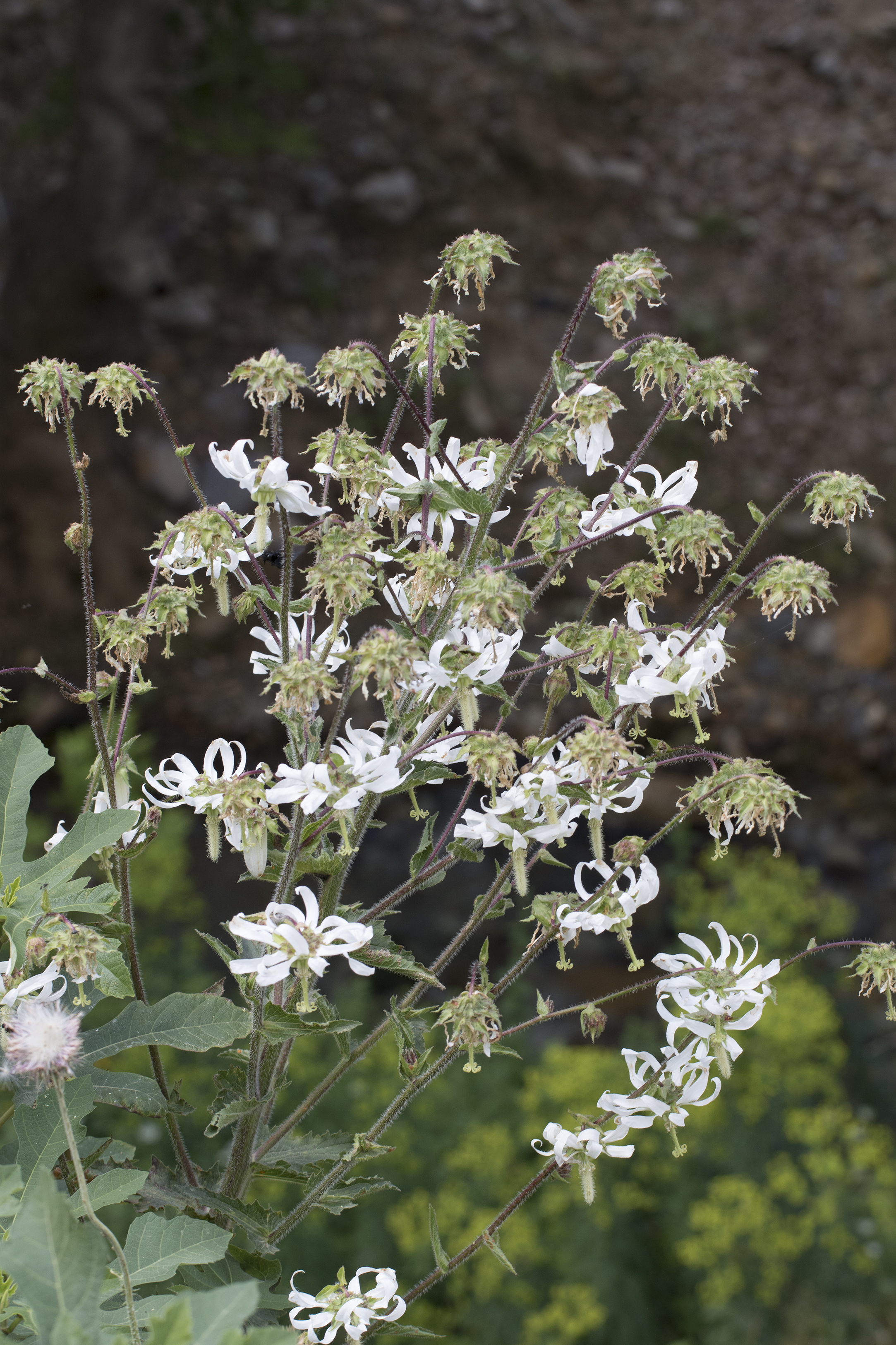 Rough-leaved Michauxia (Michauxia campanuloides). Kirkot stream, Saimbeyli - Adana, Turkey.